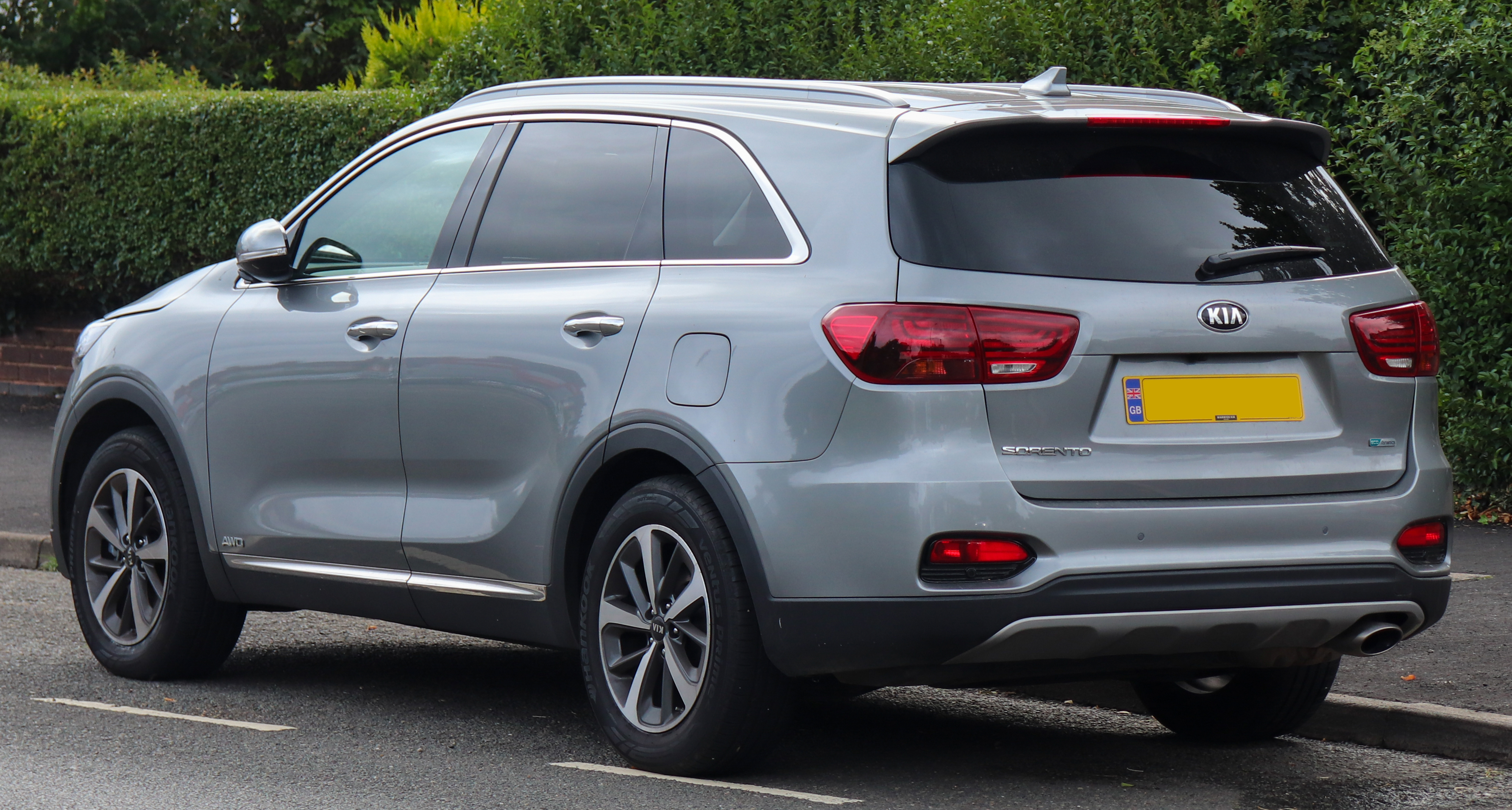 2018 Kia Sorento KX-2 CRDI ISG 4X4 2.2 Rear Taken in Warwick